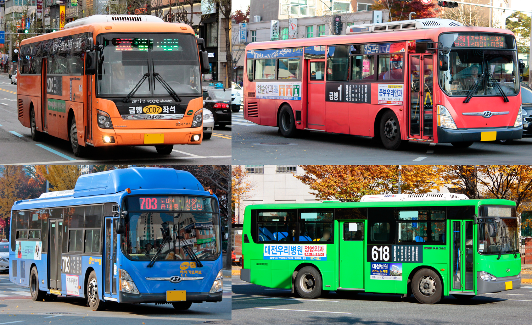 Clockwise from top left: Intercity Experss Route 2002, Express Route 1, Branch Route 618, Trunk Route 703